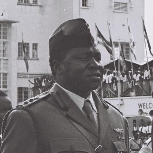 UGANDA CHIEF OF STAFF IDI AMIN AT ENTEBBE AIRPORT.